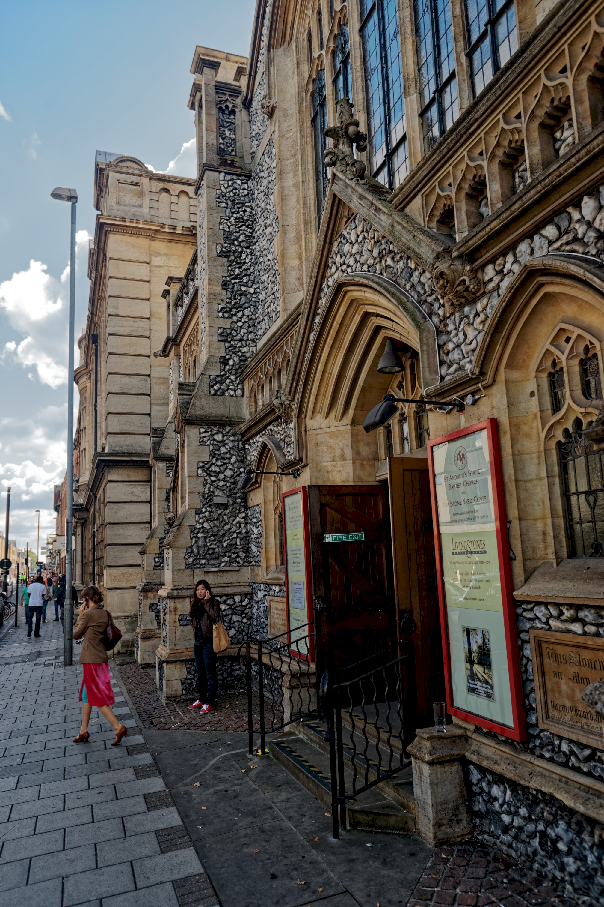 Cambridge - St Andrews Street - View SSE along St Andrews Street Baptist Church 1903 by George and Reginald Palmer Baines